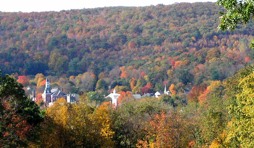 An October 2003 view of Thomaston, Litchfield, Connecticut from Plymouth, Litchfield, Connecticut.